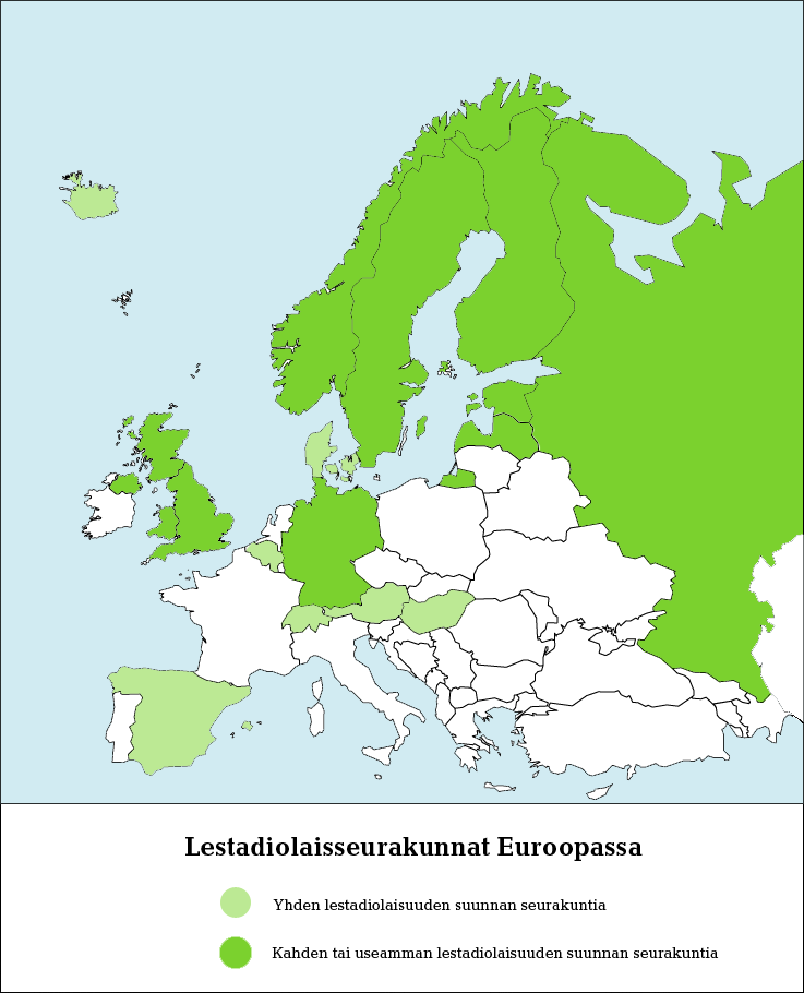 Laestadianism in Europe. Lighter: Congregations of one faction. Darker: Congregations of two or more factions.